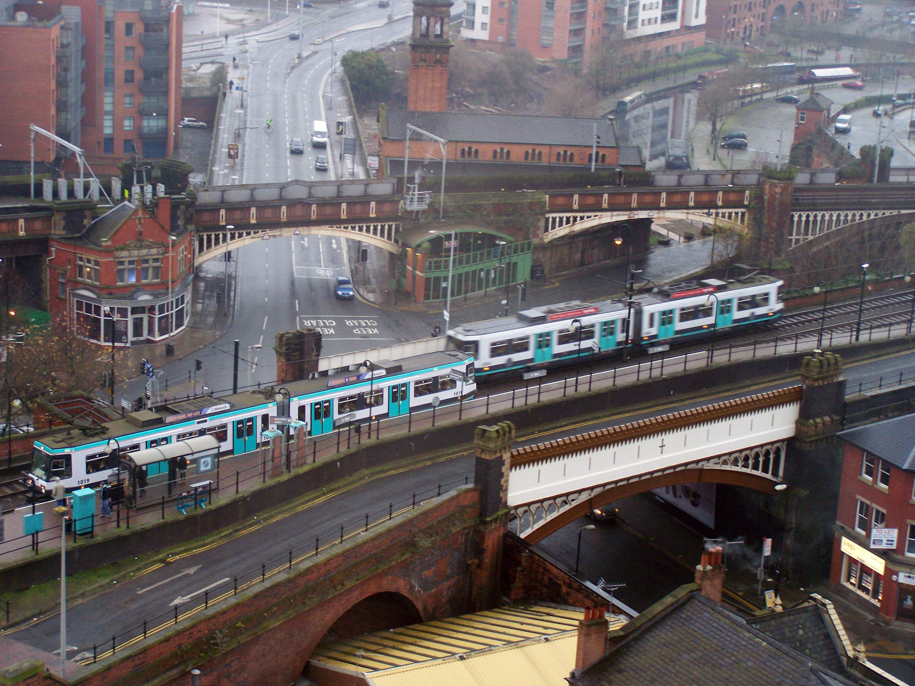 2004 and 1019 crossing at GMex